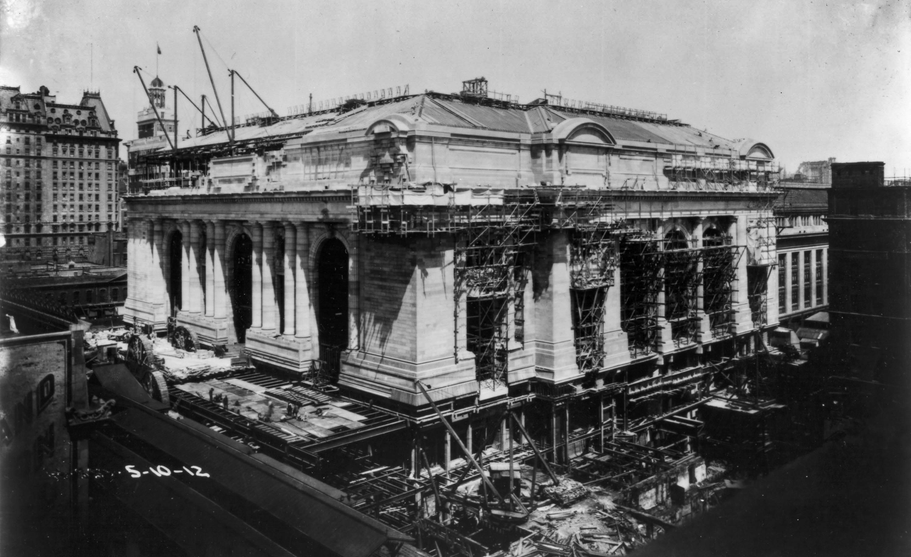 Construction of Grand Central